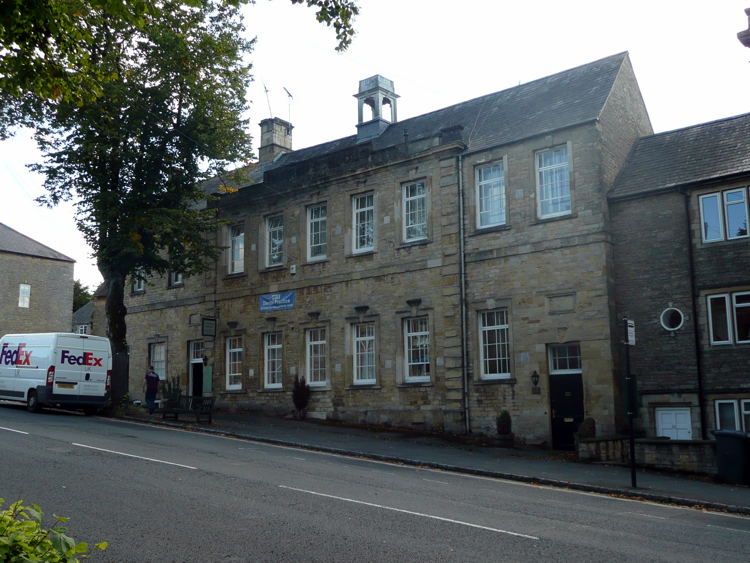 Photo of the old "British Schools" building at 28/30 New Street, Chipping Norton, Oxfordshire that housed Chipping Norton Recording Studios from 1972-1999. A grade II listed building (English Heritage Building ID: 251684). Photo taken on August 24, 2011 in Chipping Norton, England, GB, using a Panasonic DMC-TZ3 by Flickr user "Reading Tom", published on Flickr [1] under a Creative Commons Attribution 2.0 Generic (CC BY 2.0) licence.